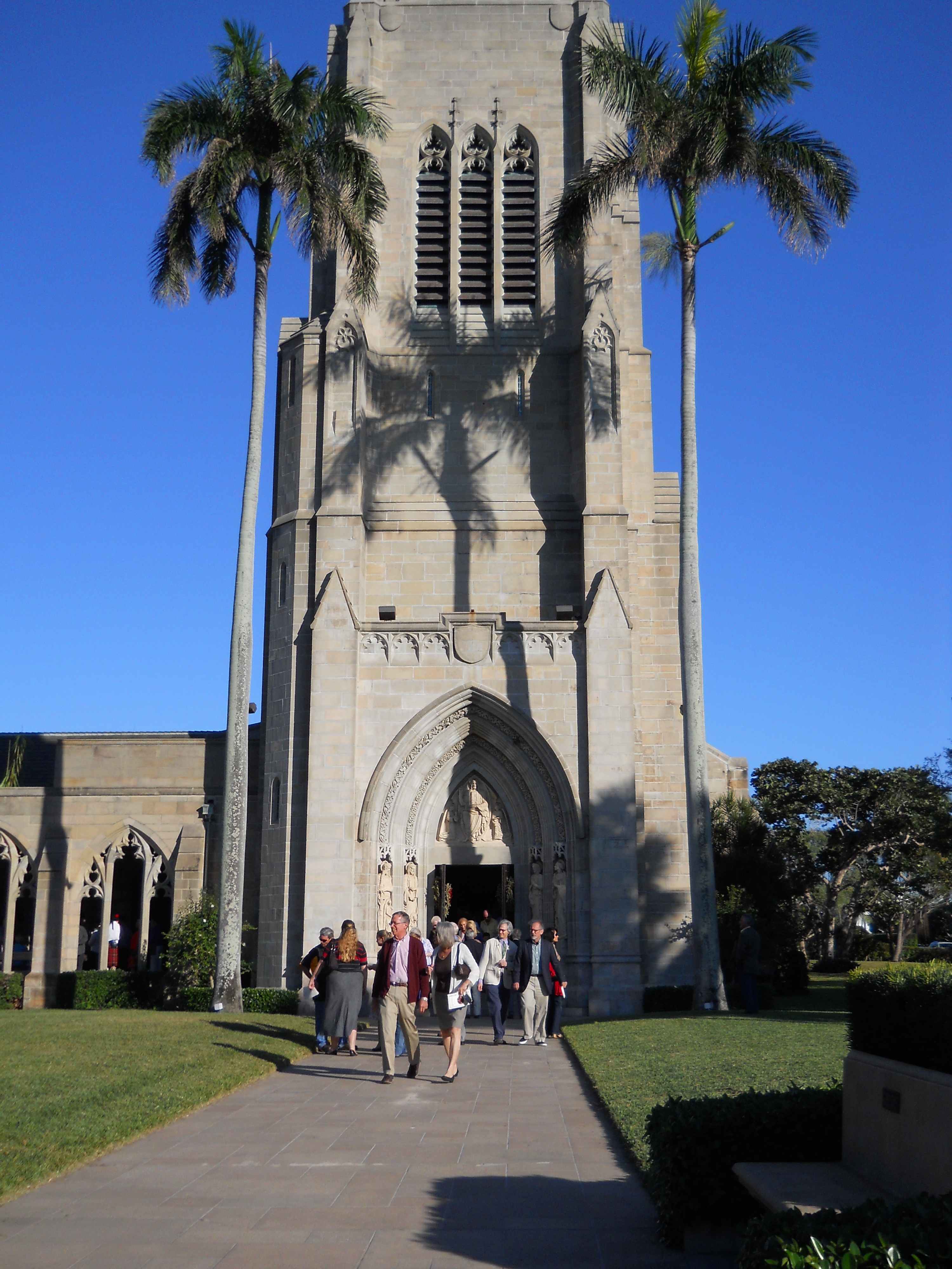 Bethesda-by-the-Sea Episcopal Church, 141 South County Road, Palm Beach, Florida: Tower: another view